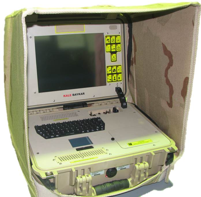 Portatif Yer Kontrol İstasyonu